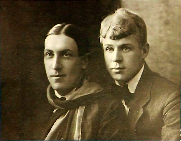 Russian poet Sergei Yesenin (1895-1925) (on right) and Russian poet and writer Anatoly Marienhof (on left). summer 1919